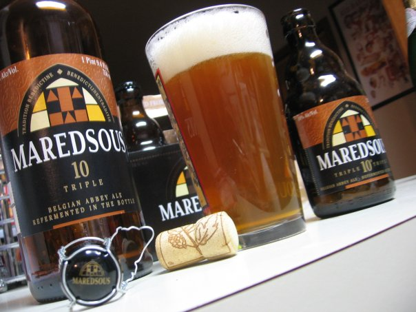 Maredsous Triple. Taken and consumed by John McStravick